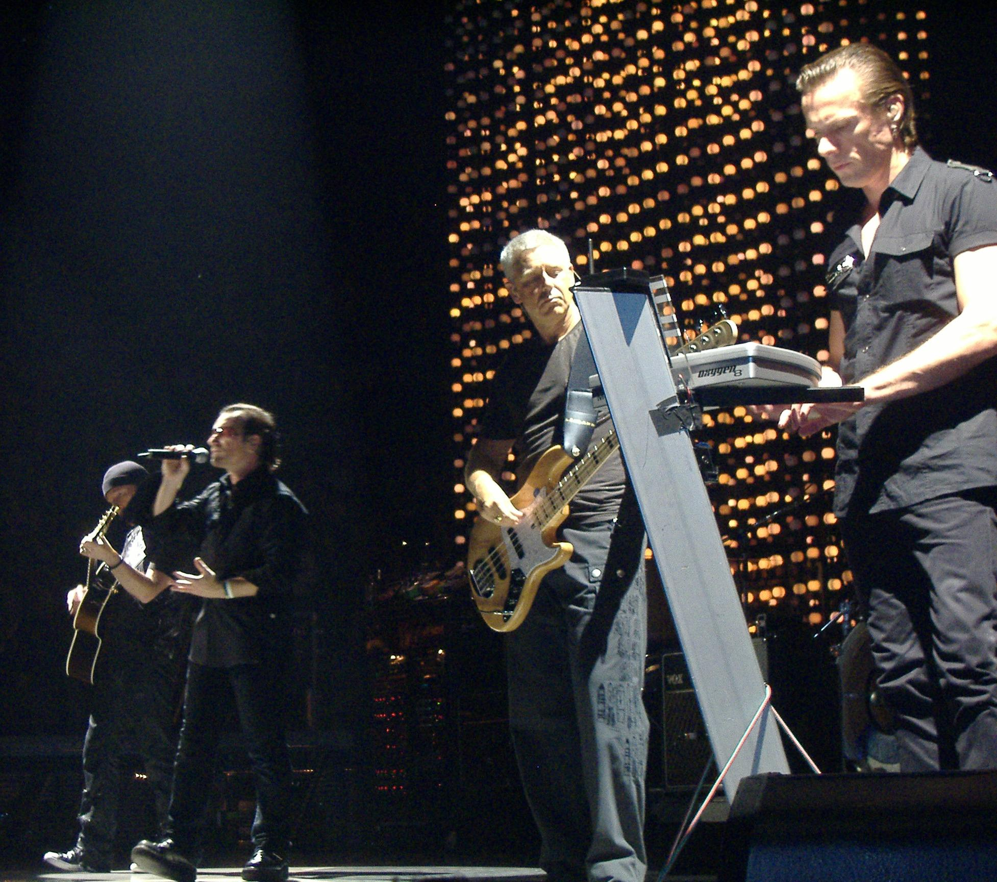 U2 peforming at Madison Square Garden.